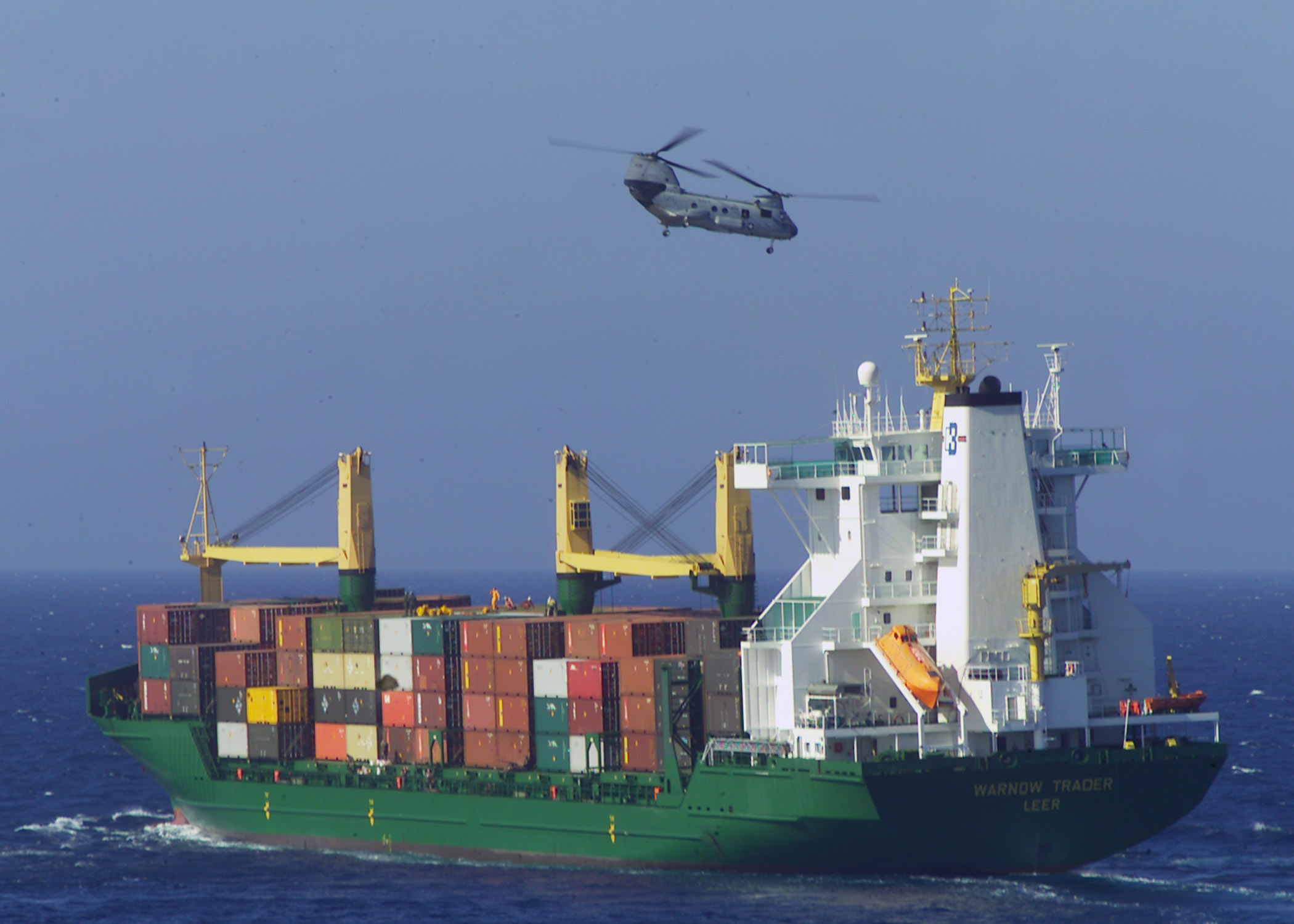 The Gulf of Aden (Mar. 26, 2003) -- A CH-46 Sea Knight helicopter performs a vertical replenishment (VERTREP) with the supply ship Warnow Trader while deployed. Warnow Trader is using the supplies to feed the troops from the 2nd Army Division, which is fighting in support of Operation Iraqi Freedom. Mt. Whitney and embarked Marines are deployed to the Horn of Africa region in support of Operation Enduring Freedom. U.S. Navy photo by Photographer’s Mate 3rd Class Scott Phillips. (RELEASED)